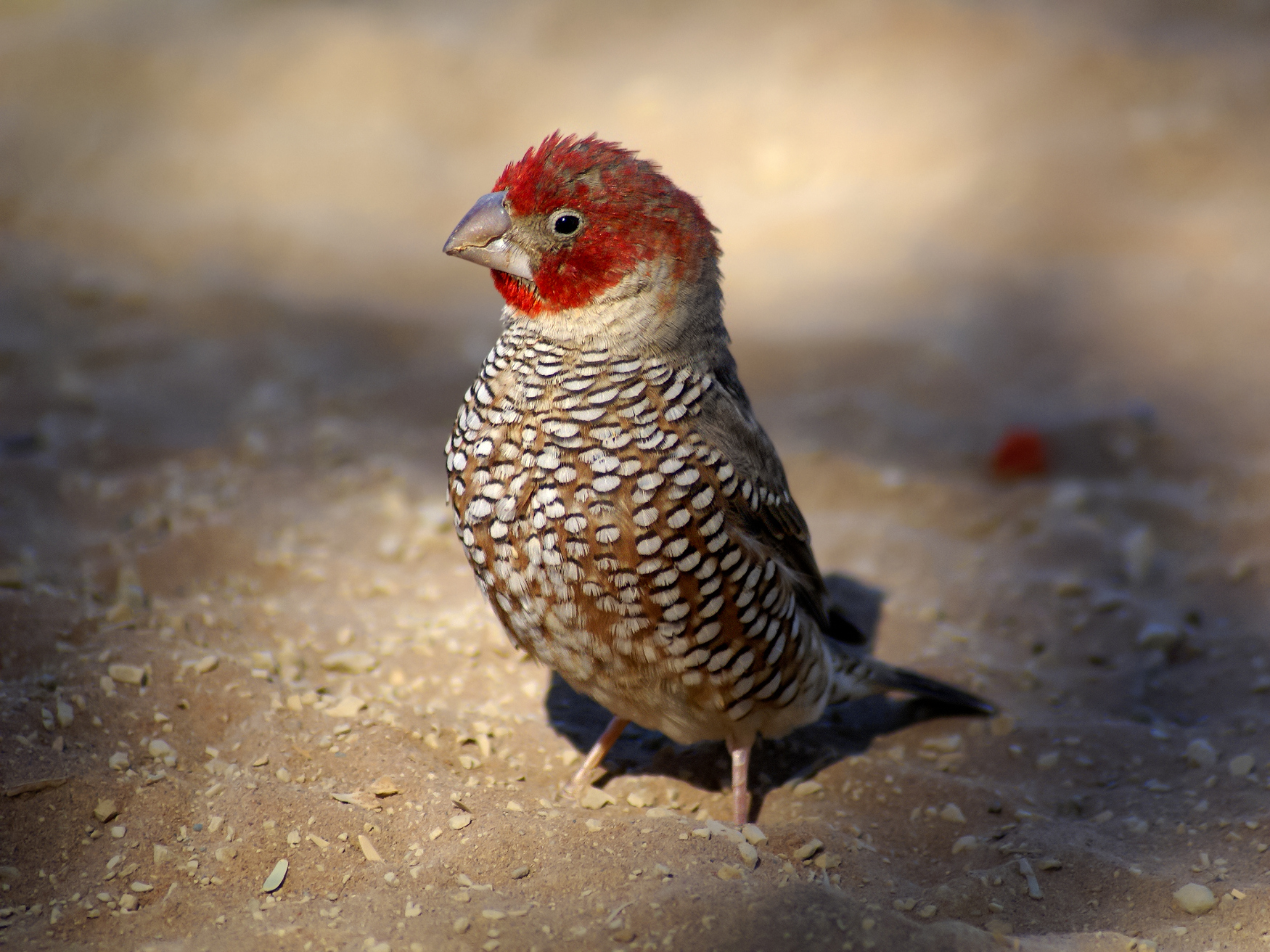 ♂ Red-headed Finch, at Sossusvlei, Namib desert, Namibia